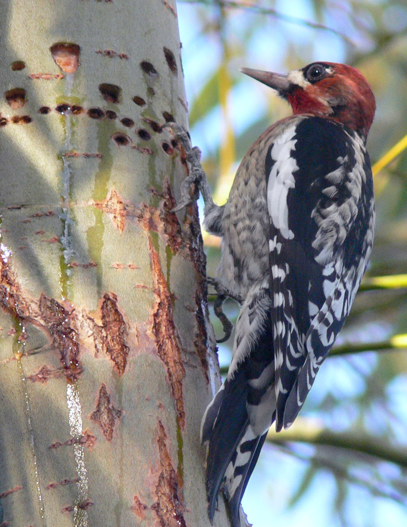 Red-breasted Sapsucker Sphyrapicus ruber, Novato, California. From the holes in the willow, I always suspected we had a woodpecker. But until this morning, I'd never seen him.